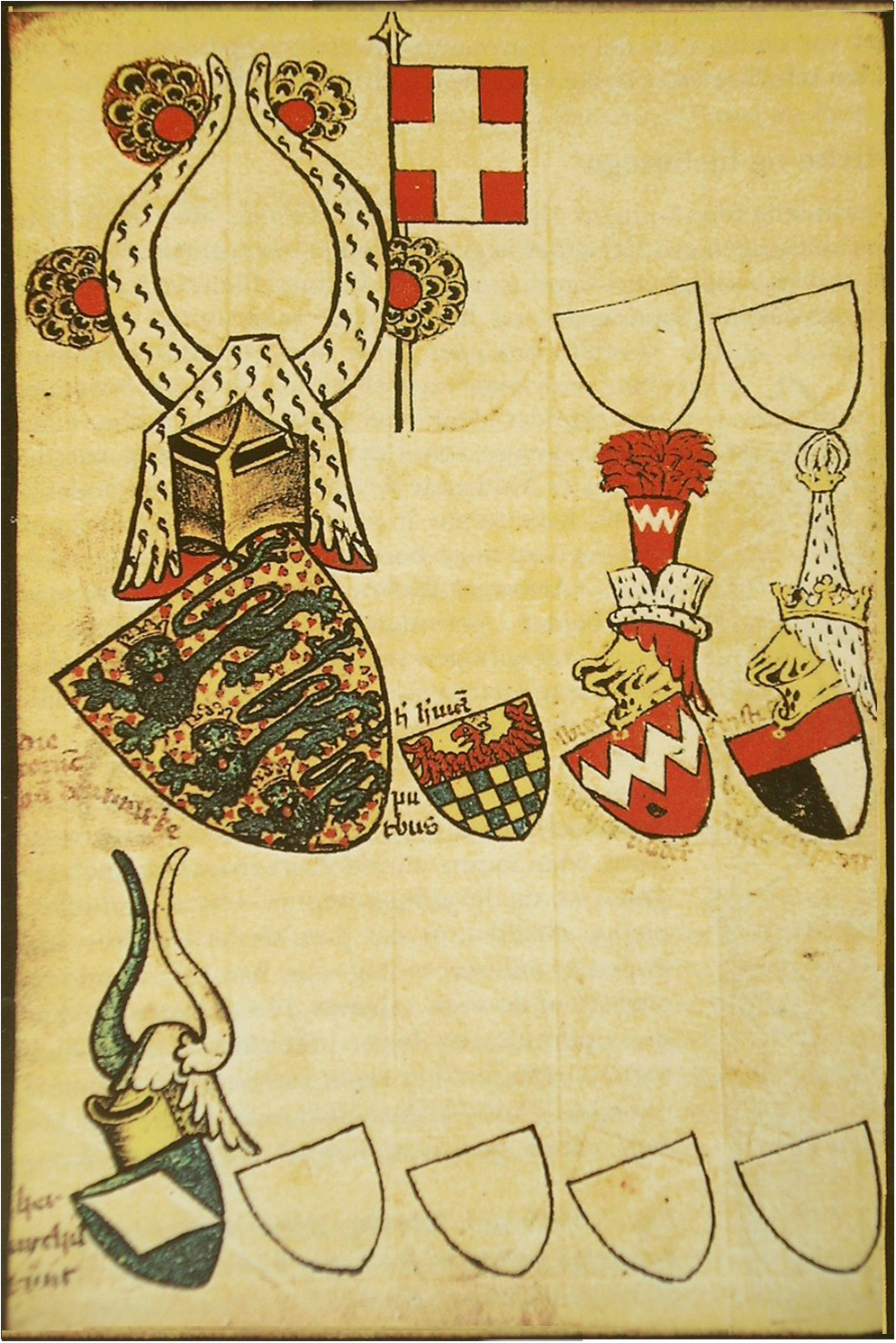 Page out of the Armorial Gelre. Folio 55v de l'Armorial de Gelre. Page 55 verso in the Dutch book Wapenboek Gelre, written between 1395-1402 (W. van Anrooij (1990) Spiegel van Ridderschap, Heraut Gelre en zijn ereredes), by Geldre Claes Heinen. Displaying the earliest known undisputed colourized image of the Dannebrog.